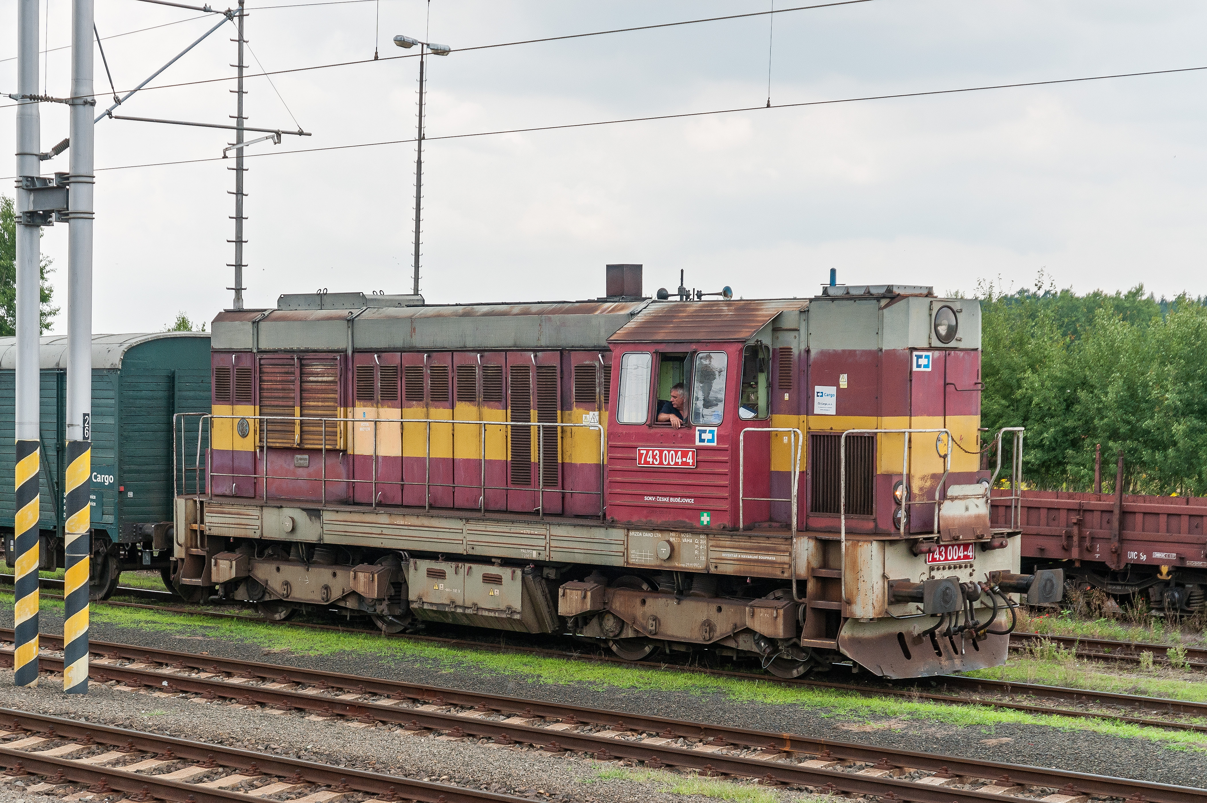 Diesel engine 743.004 (operator ČD Cargo) with local freight train at the Horažďovice předměstí station.